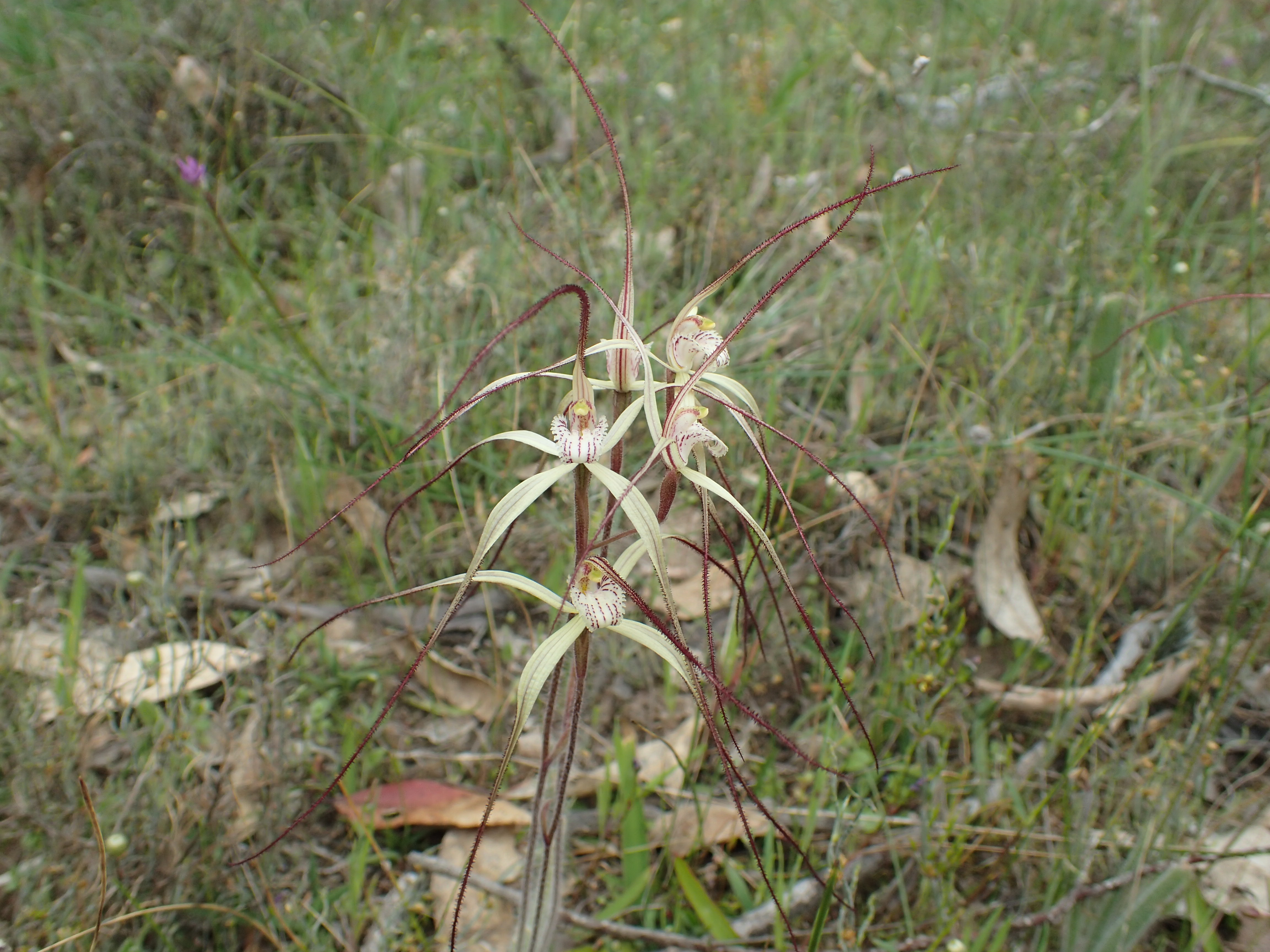 Caladenia straminichila growing in the Orchid Nature Reserve near Tenterden, Western Australia